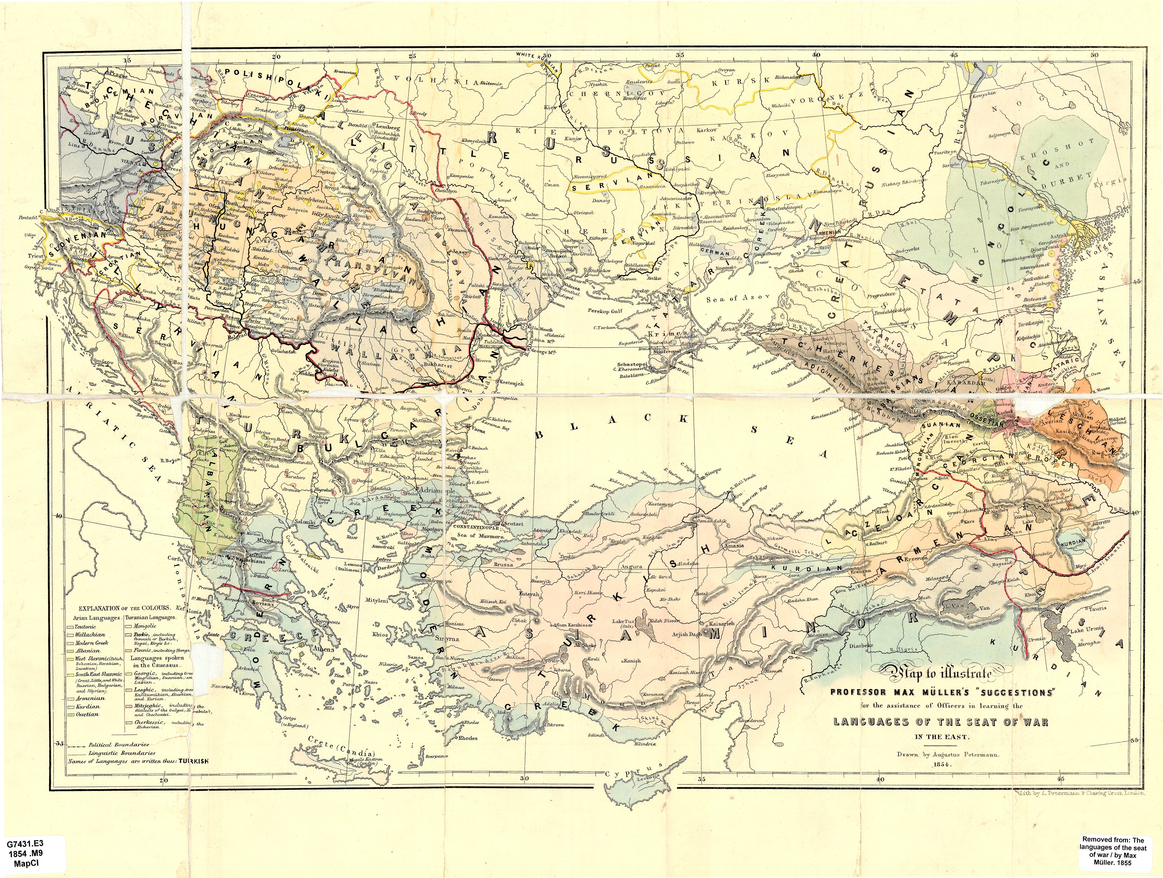 Map to illustrate Professor Max Müller's "Suggestions" for the assistance of officers in learning the languages of the seat of war in the East / drawn by Augustus Petermann, 1854 ; lith. by A. Petermann. Retrieved from: The languages of the seat of war in the East : with a survey of the three families of language, Semitic, Arian, and Turanian / by Max Müller. 2nd ed., with an appendix on the missionary alphabet, and an ethnographical map, drawn by Augustus Petermann. London : Williams and Norgate, 1855.